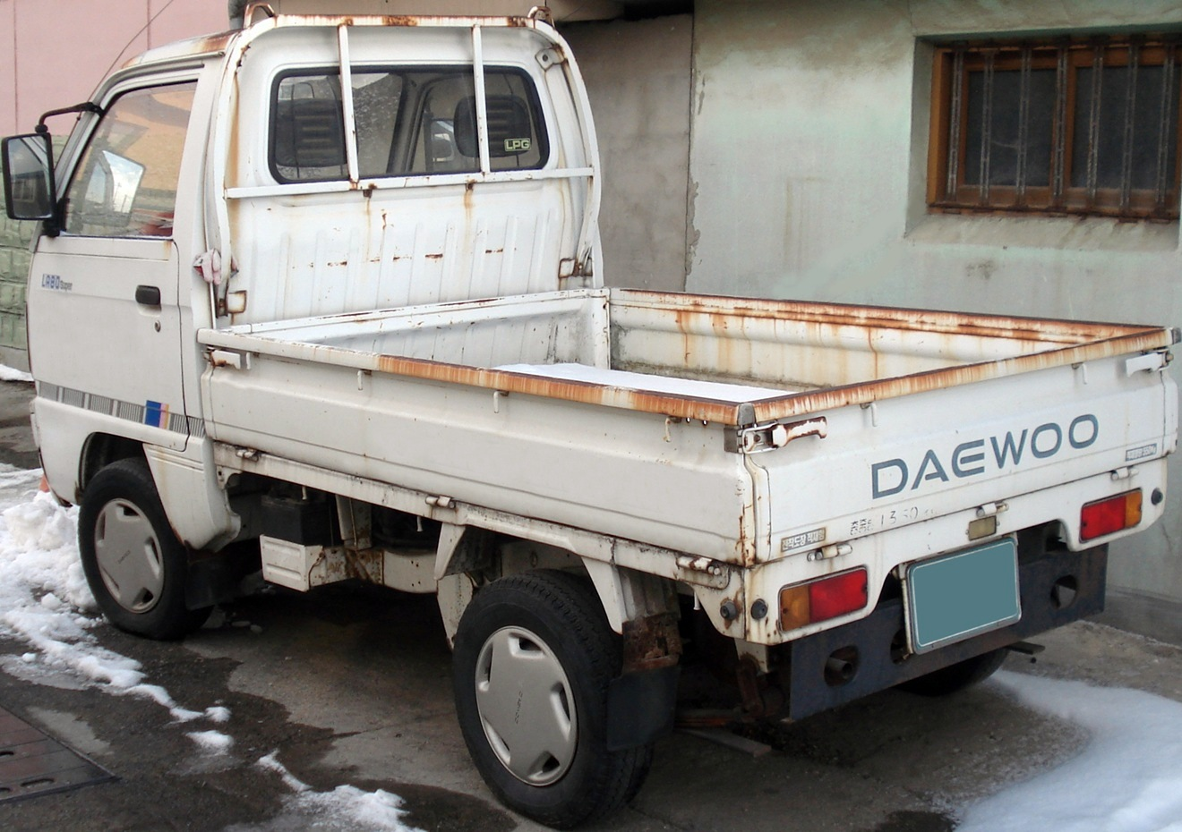 Daewoo Labo